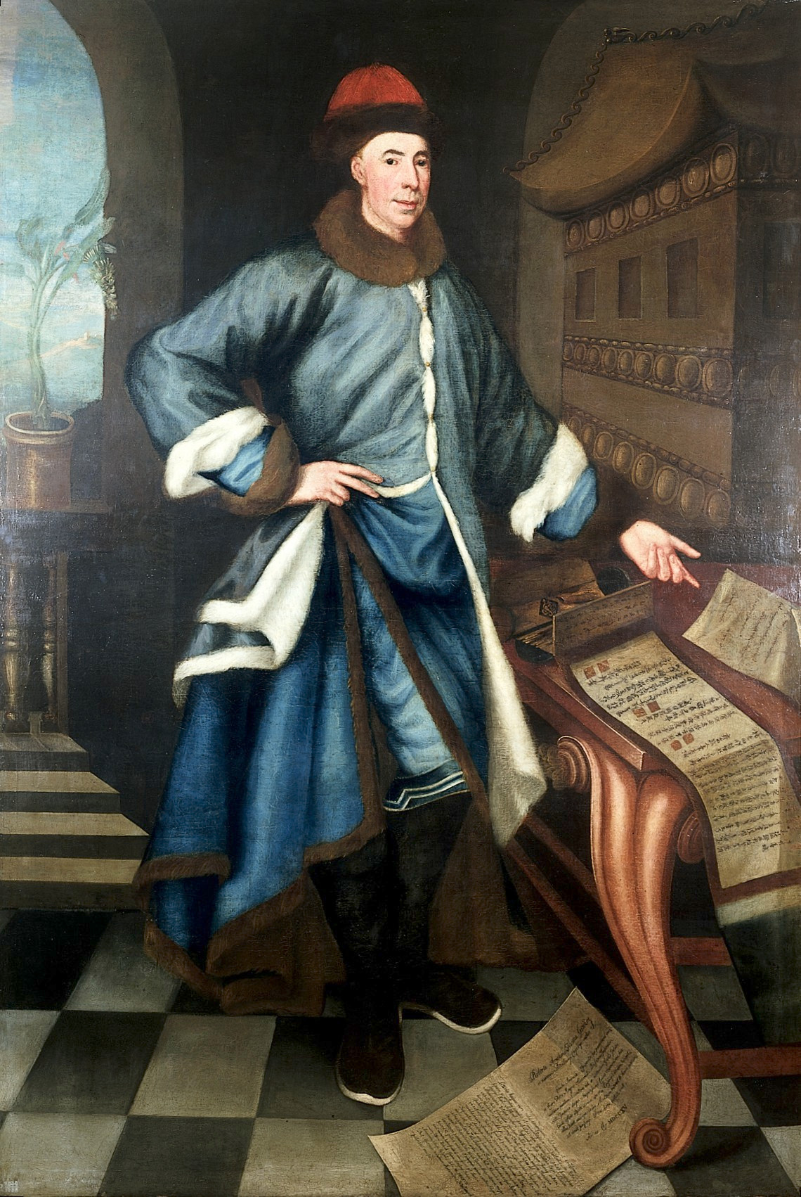 Thomas Garvine, Ayrshire surgeon active in Russia and China. Oil painting by William Mosman. Iconographic Collections Keywords: William Mosman